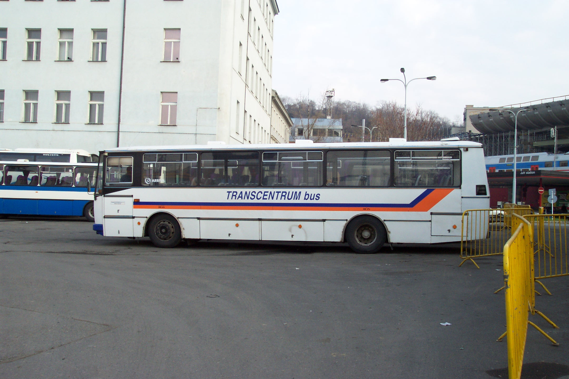 Karosa older bus of Transcentrum/Arriva company on a parking lot just behind Florenc bus terminal in Prague, Czech Republic. In the background the Nové spojení rail bridge under construction can be seenhelp